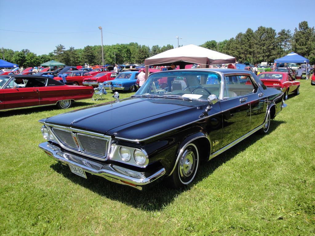 1964 Chrysler New Yorker